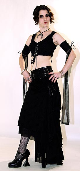 This image is from my personal archive. I made this photo of Tempest (Gothic bellydancer) while working with her on a joint project. I have Tempest's permission to use this image.